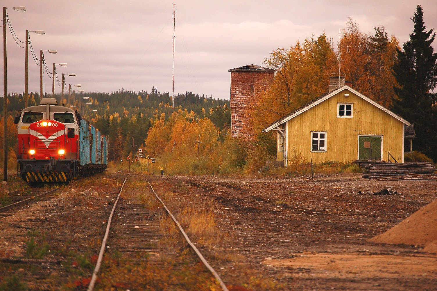 Joutsijärvi railway station, Kemijärvi, Finland. VR Class Dv12 diesel locomotive no. 2508 on the left